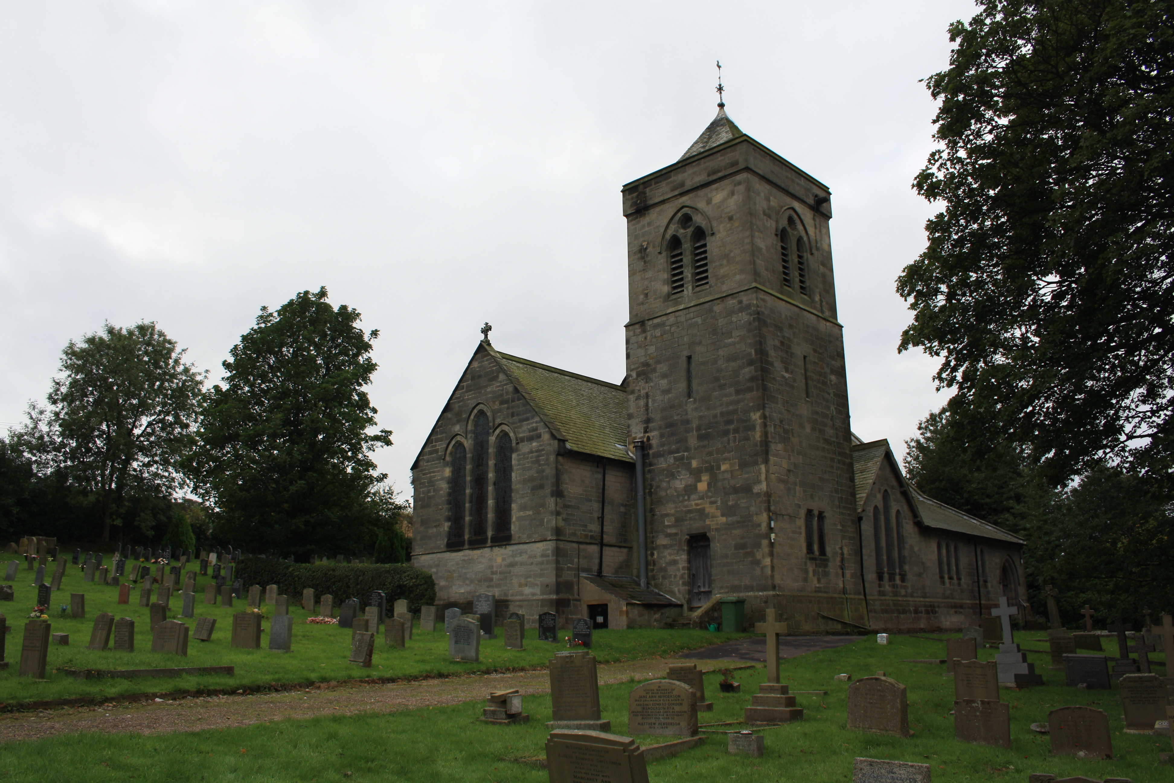 Parish church of St John the Evangelist, Sleights, North Yorkshire, seen from the northeast